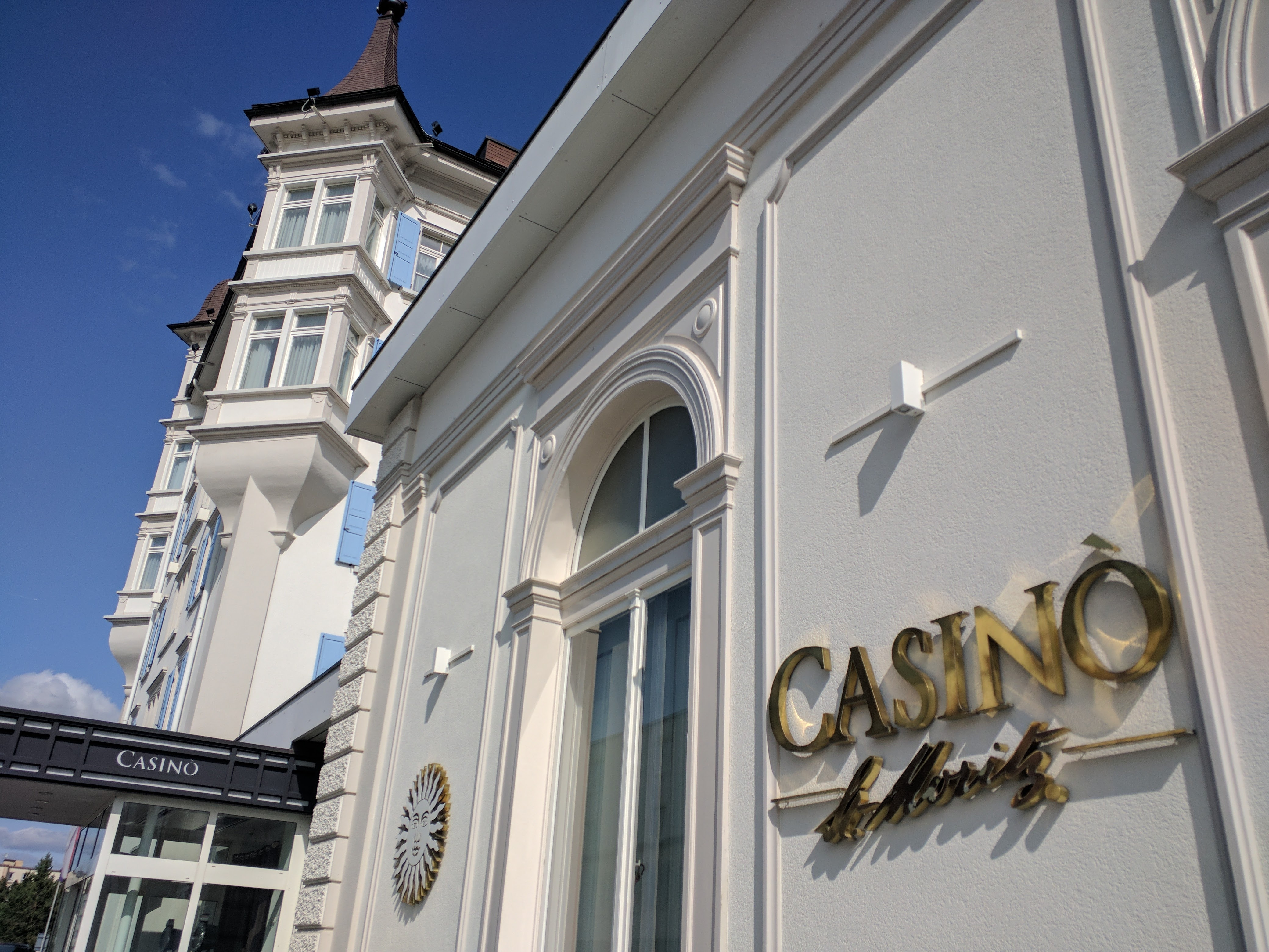 Casinò St. Moritz